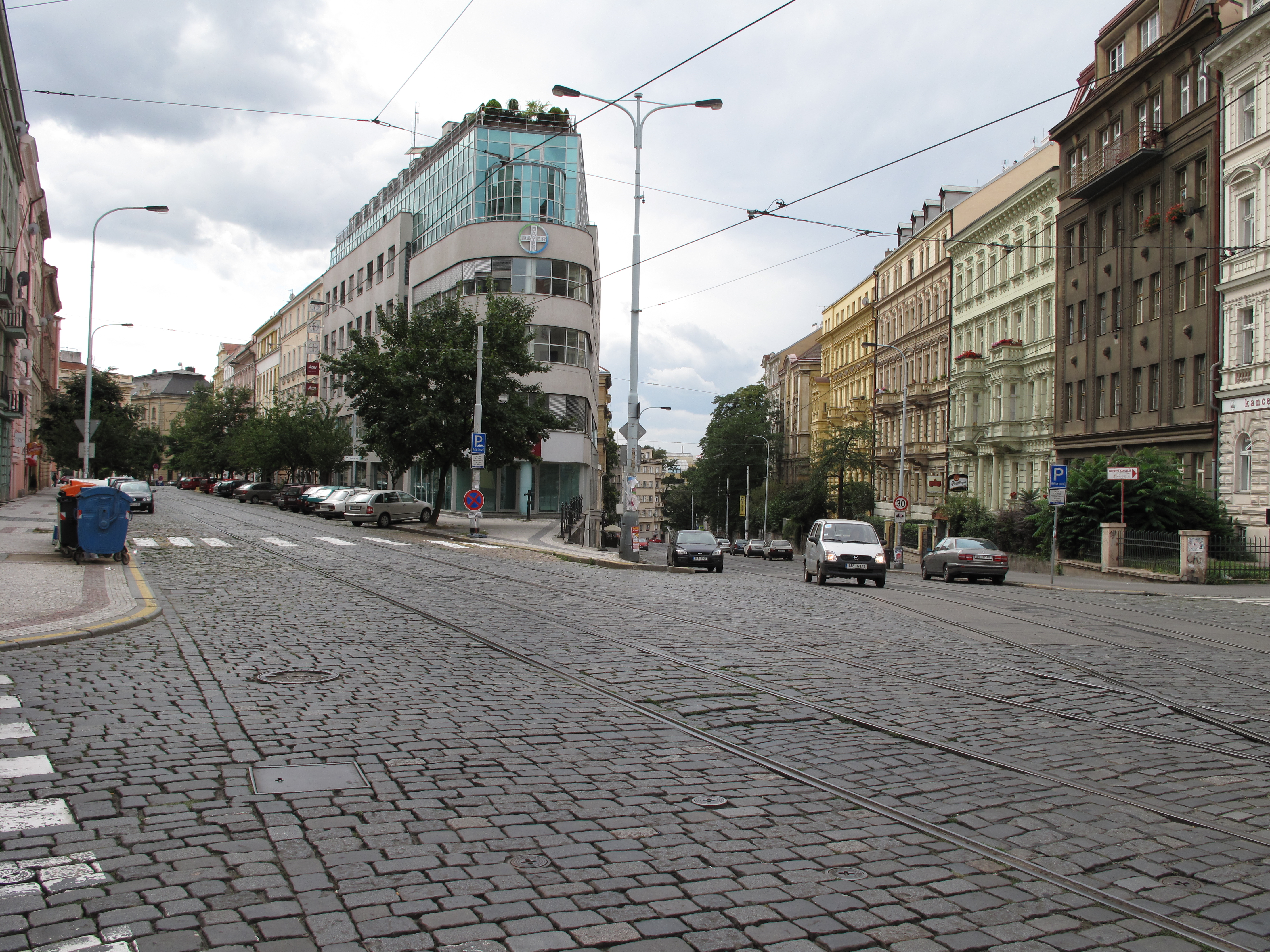 Bělehradská x Bruselská x Šafaříkova x Koubkova crossroads, Prague, Vinohrady.